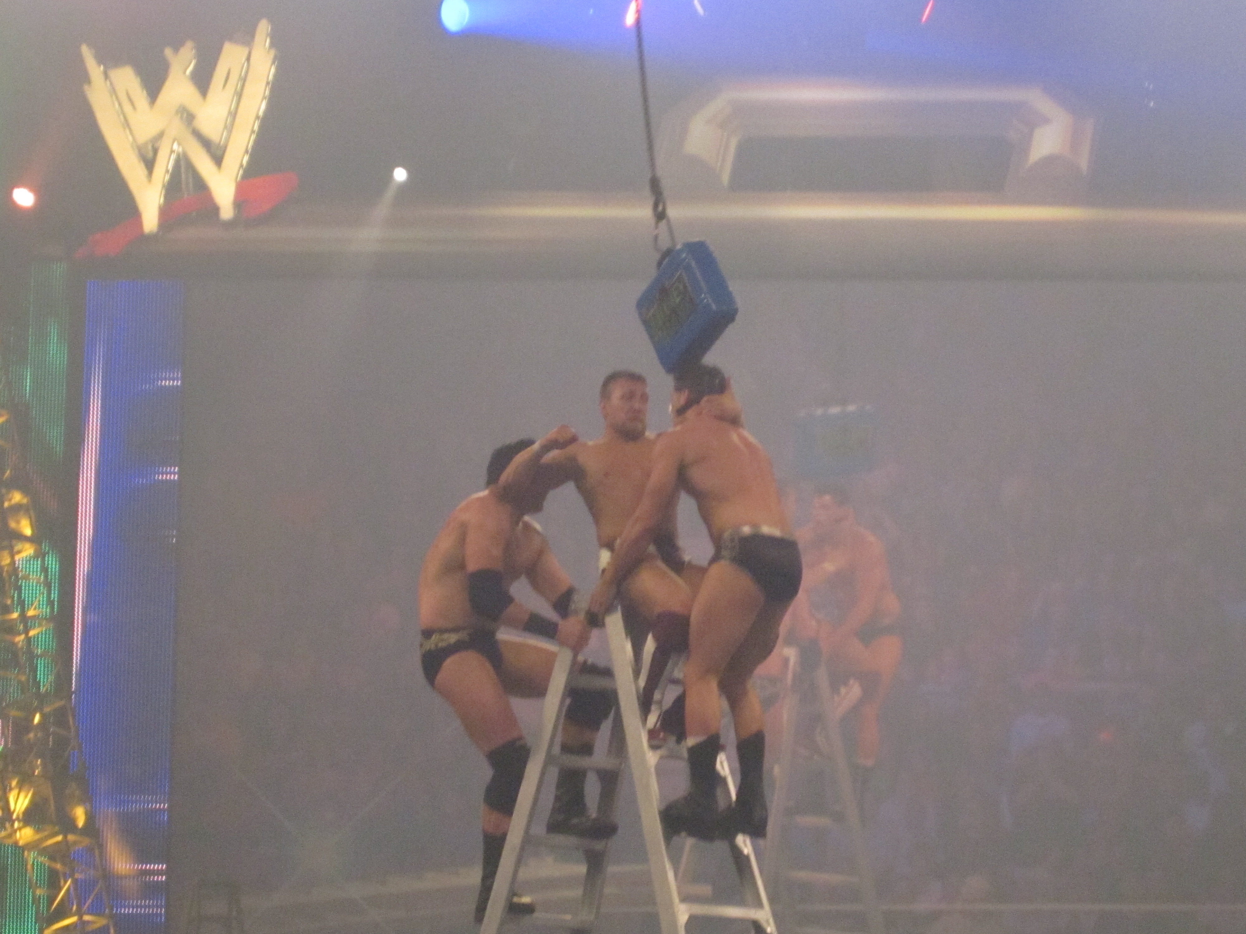 During the Money the Bank pay-per-view in Rosemont, Illinois on 17 July 2011, Daniel Bryan (centre) battles Wade Barrett (left) and Cody Rhodes (right) on top of a ladder in a Money in the Bank ladder match for the SmackDown Money in the Bank briefcase for a World Heavyweight Championship shot.